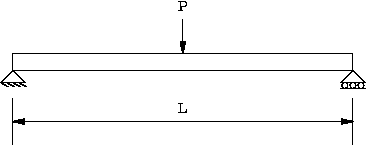 Loading of a beam.